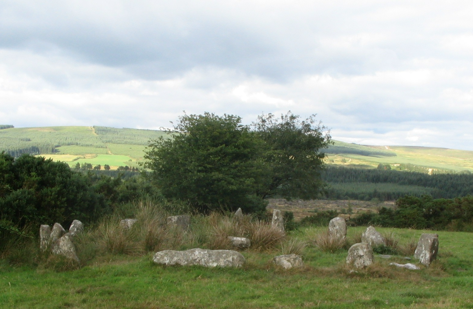 "Carrigagulla" stone circle, is found to the north of the village of Ballinagree County Cork, Ireland. Photograph taken 12th August 2006